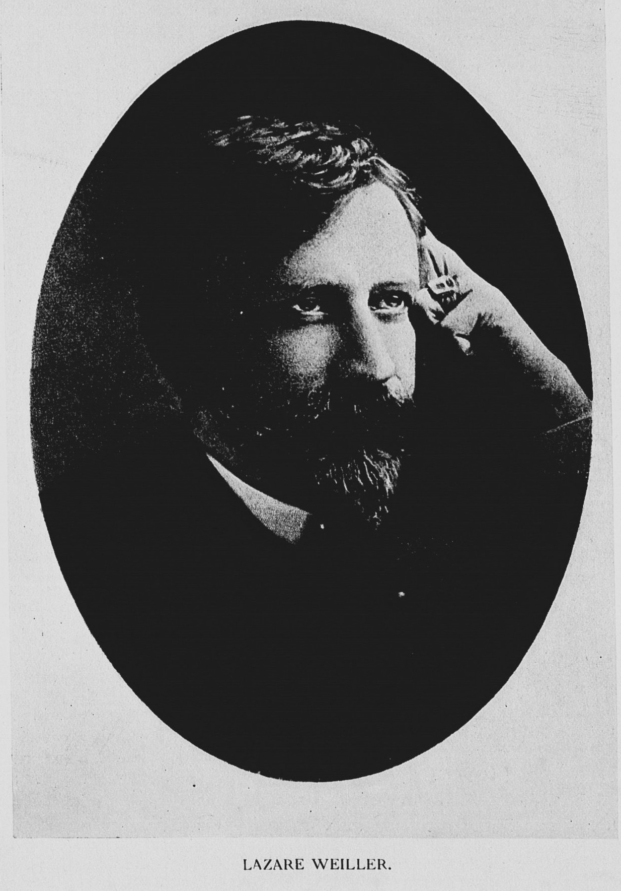 The entrepreneur Lazare Weiller